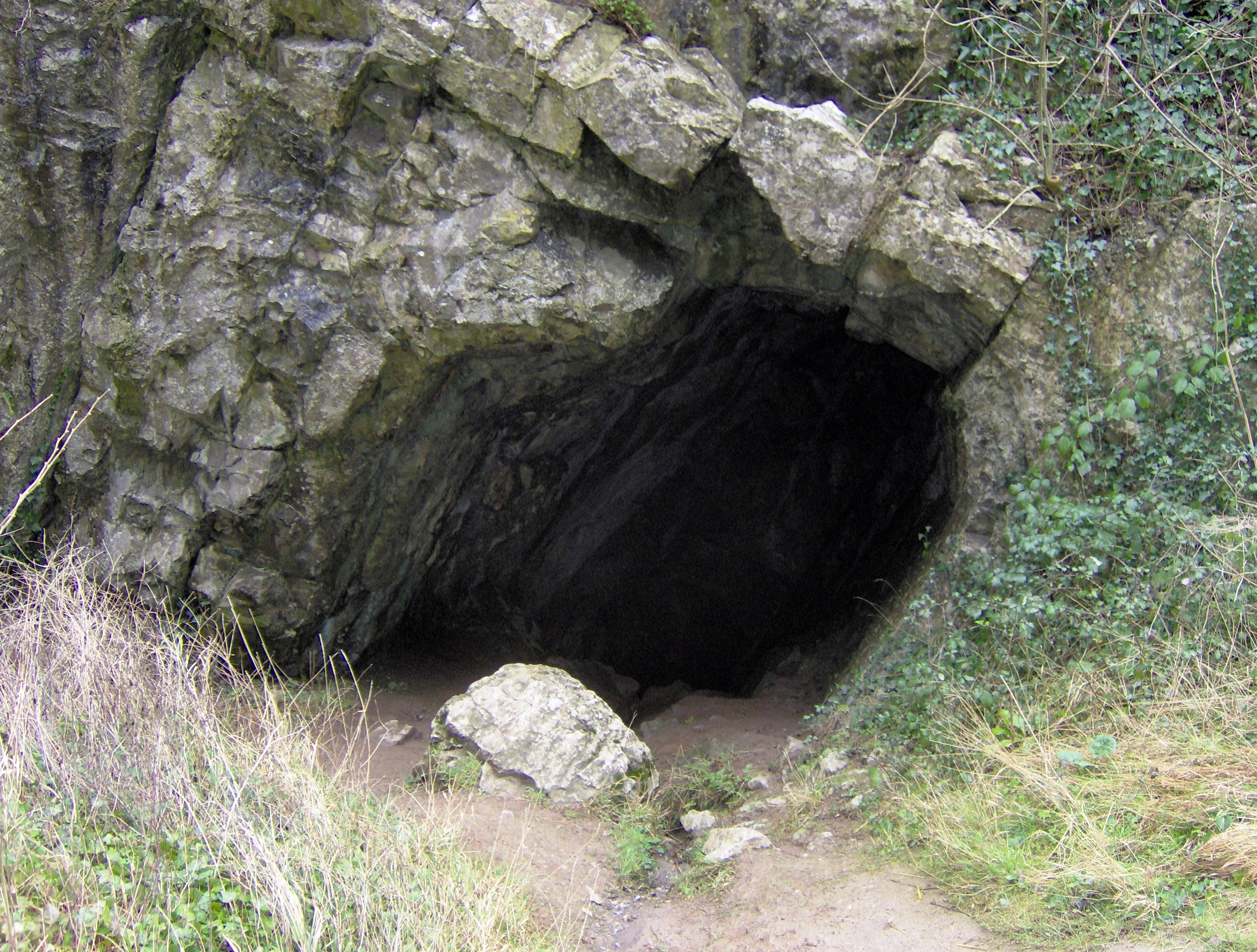 Avelines Hole Burrington Combe.